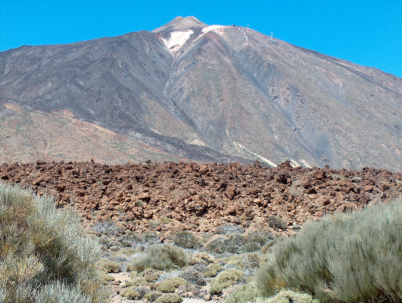 Teide